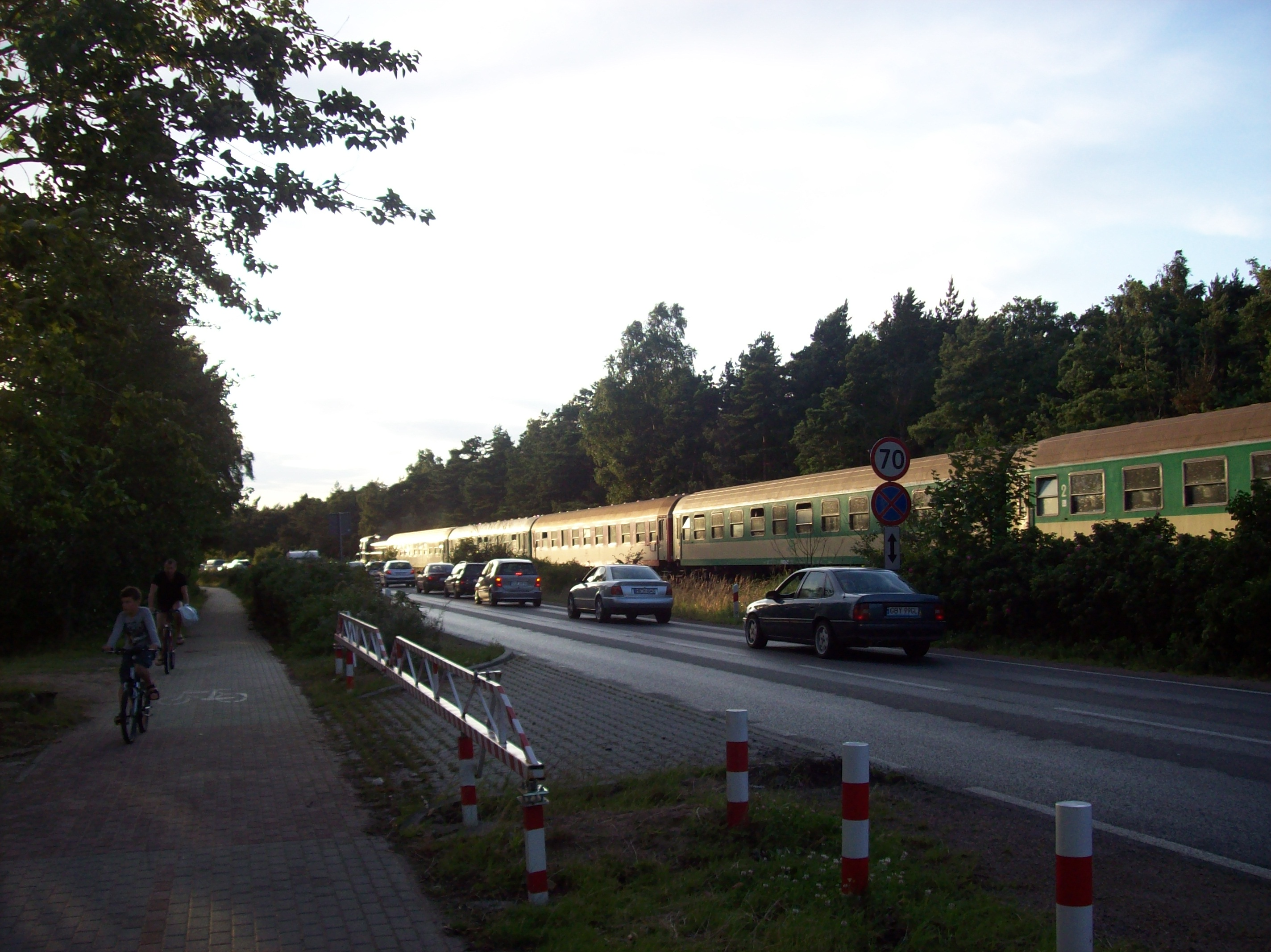 Hel spit near Chałupy